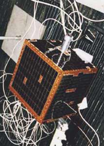 SEDSAT-1 (also known as SEDSAT-OSCAR 33) is an amateur radio satellite of the United States.